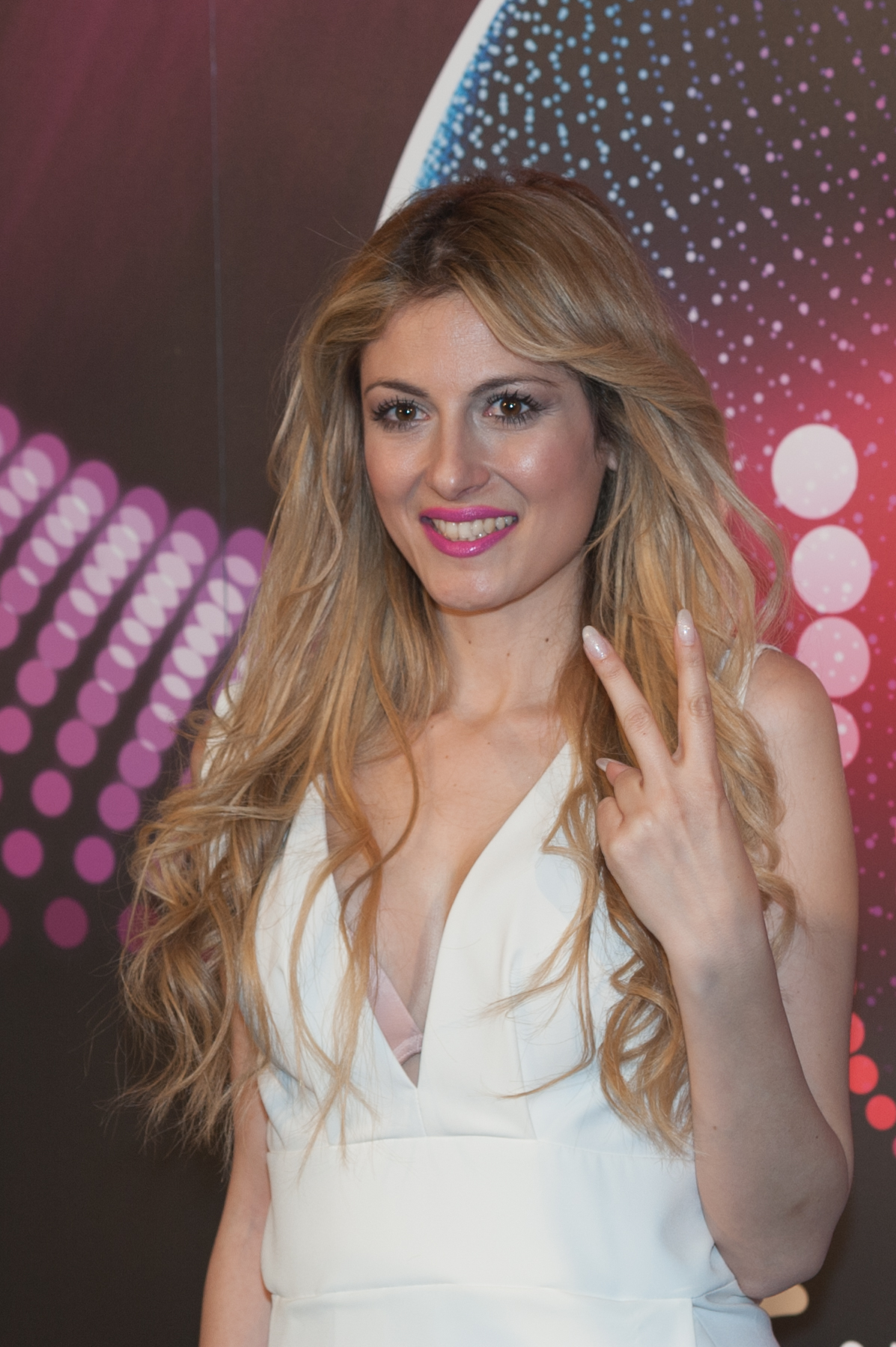 Eurovision Song Contest Vienna 2015: Maria Elena Kyriakou